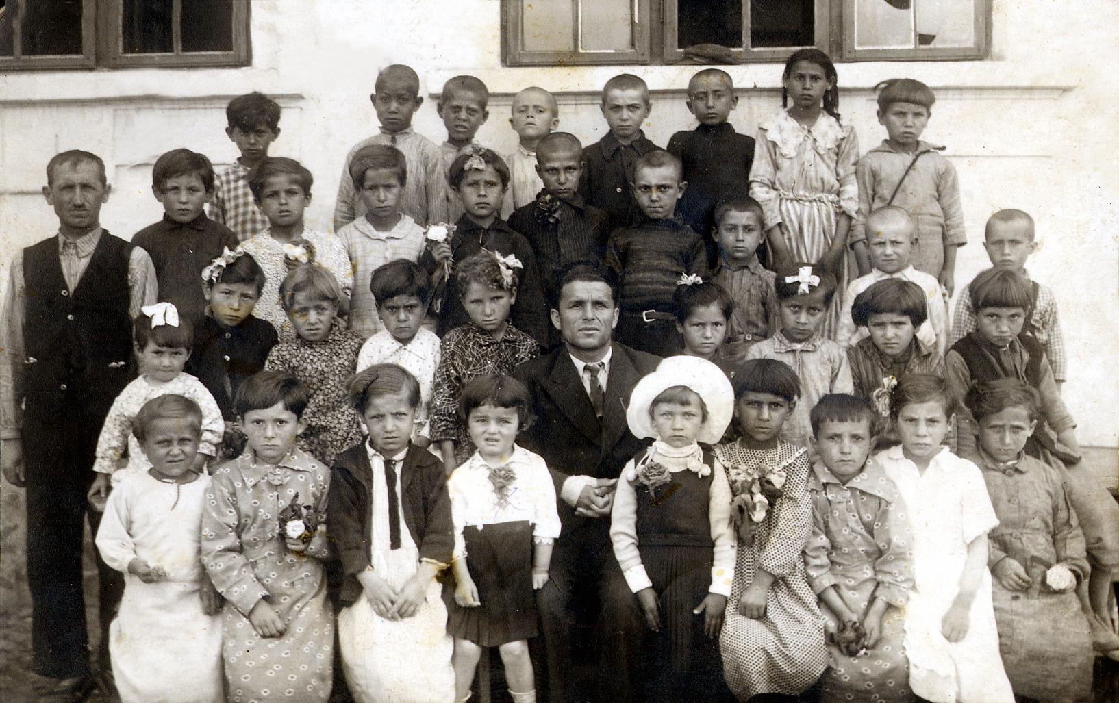 Yordan Vlahov and students 1936-1937, Malord, Vratsa Province